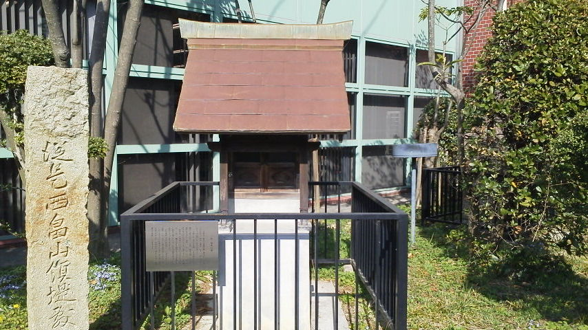 荒木豊重のものとされる祠です